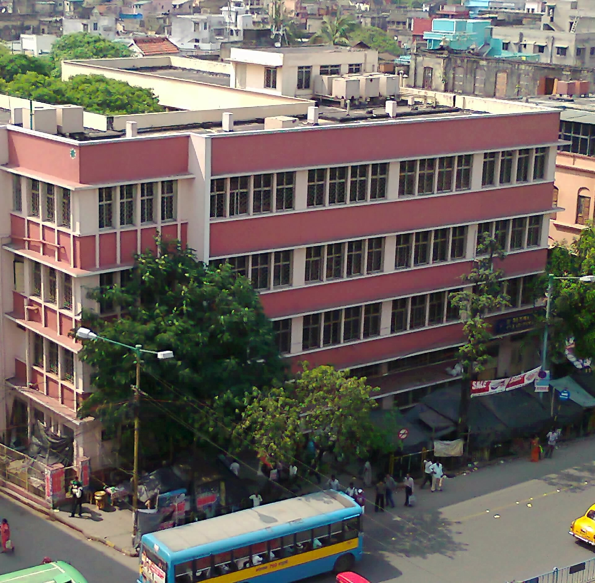 Old building